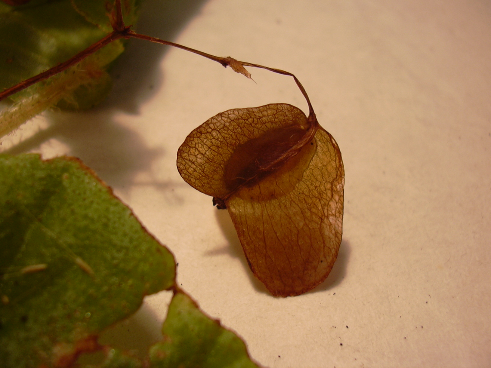 Begonia hirtella (fruit). Location: Maui, Hana Hwy